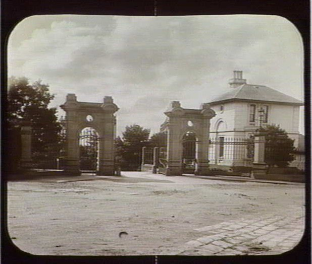 Entrance gates of Kew Asylum, Victoria, Australia. Circa 1880